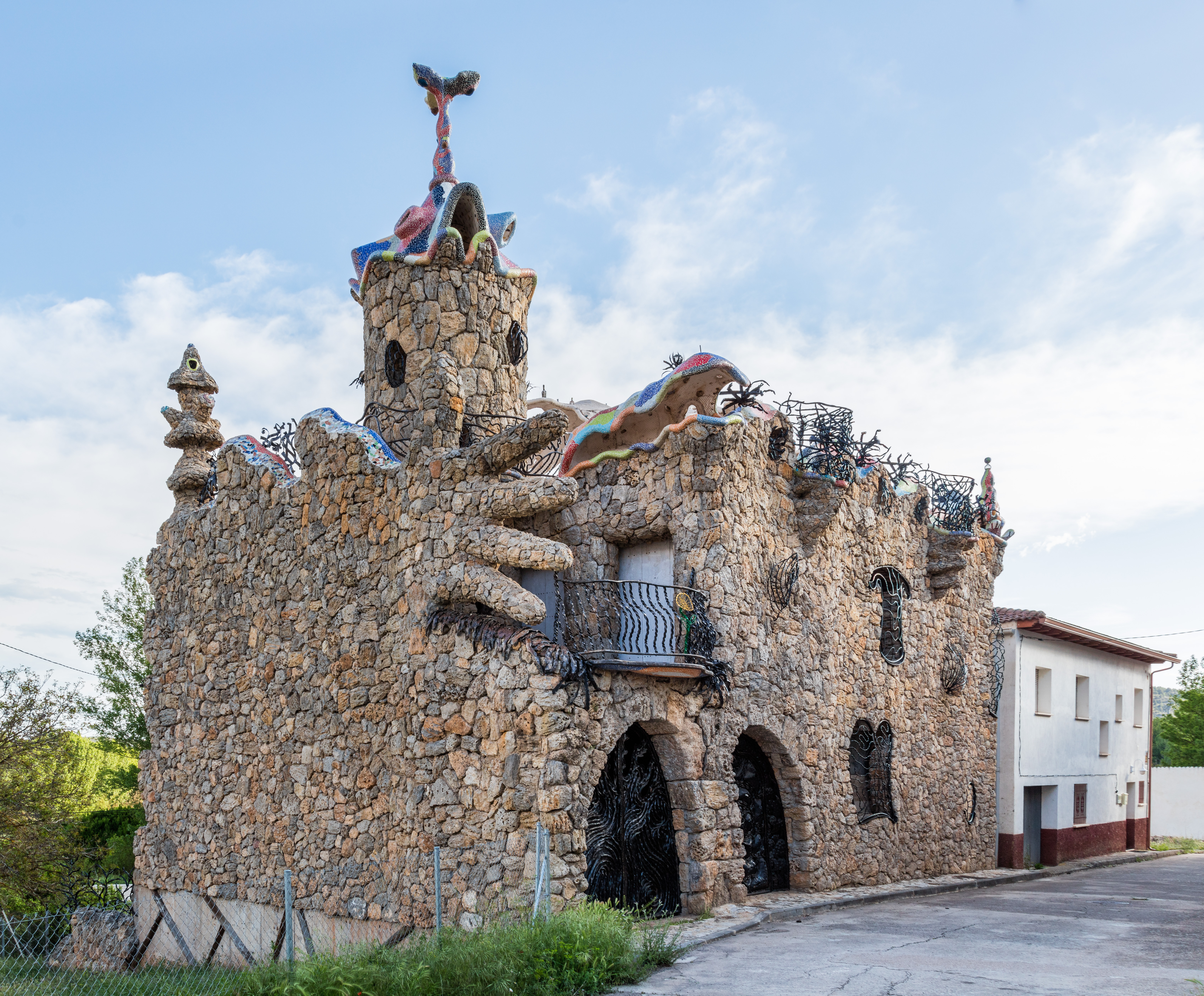 El Capricho, Rillo de Gallo, province of Guadalajara, Castile-La Mancha, Spain. The Gaudian Art Nouveau work was built by Antonio Martínez in 2011.